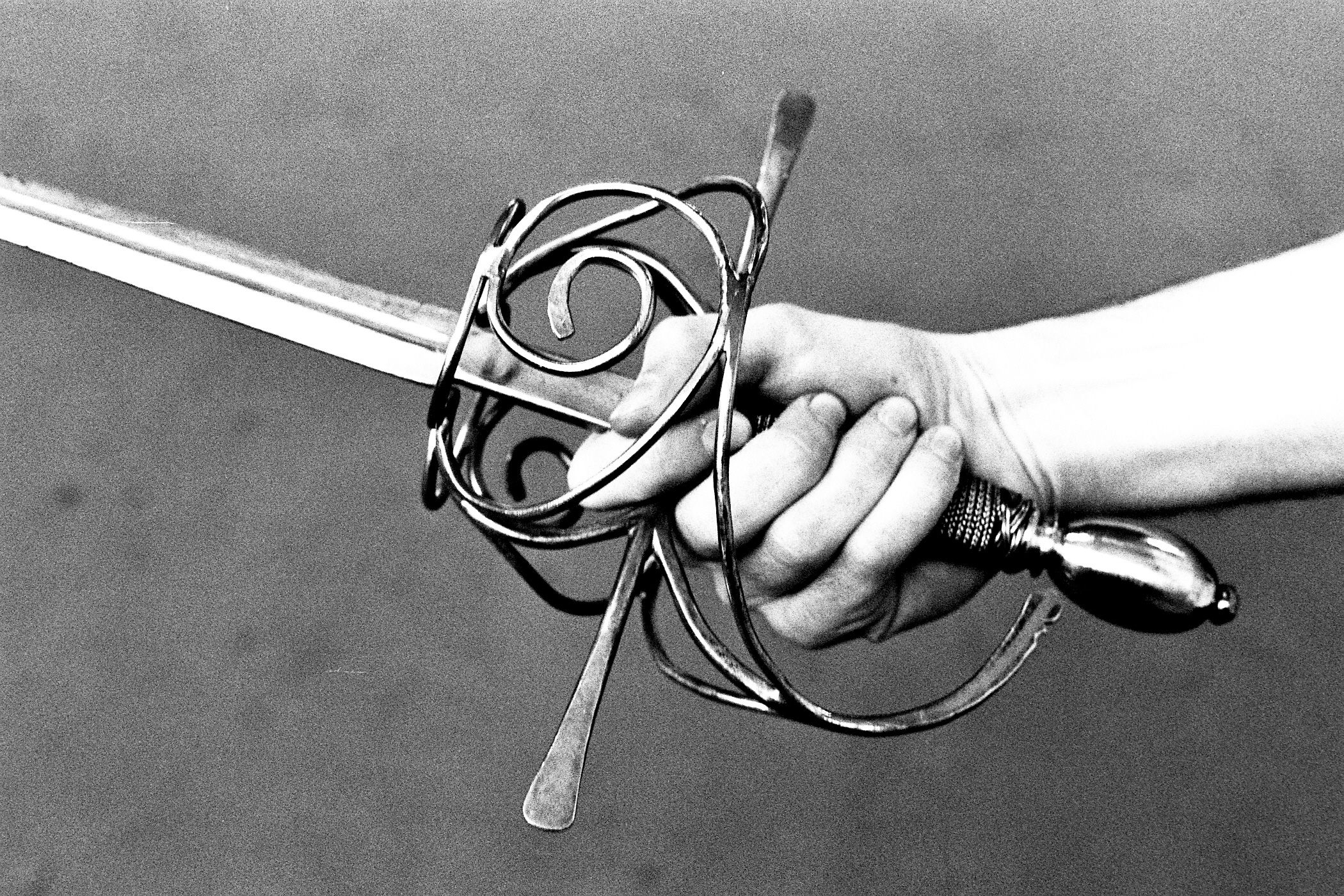 Modern replica of a rapier.Leica R4s, Fujifilm Neopan 1600